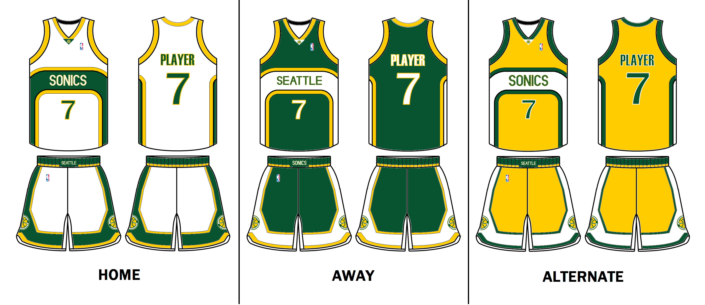 This is my version of the Seattle SuperSonics uniforms.